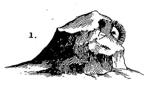 Robert Plot made a woodcut showing a double sunset at Leek in 'The Natural History of Staffordshire', 1686.